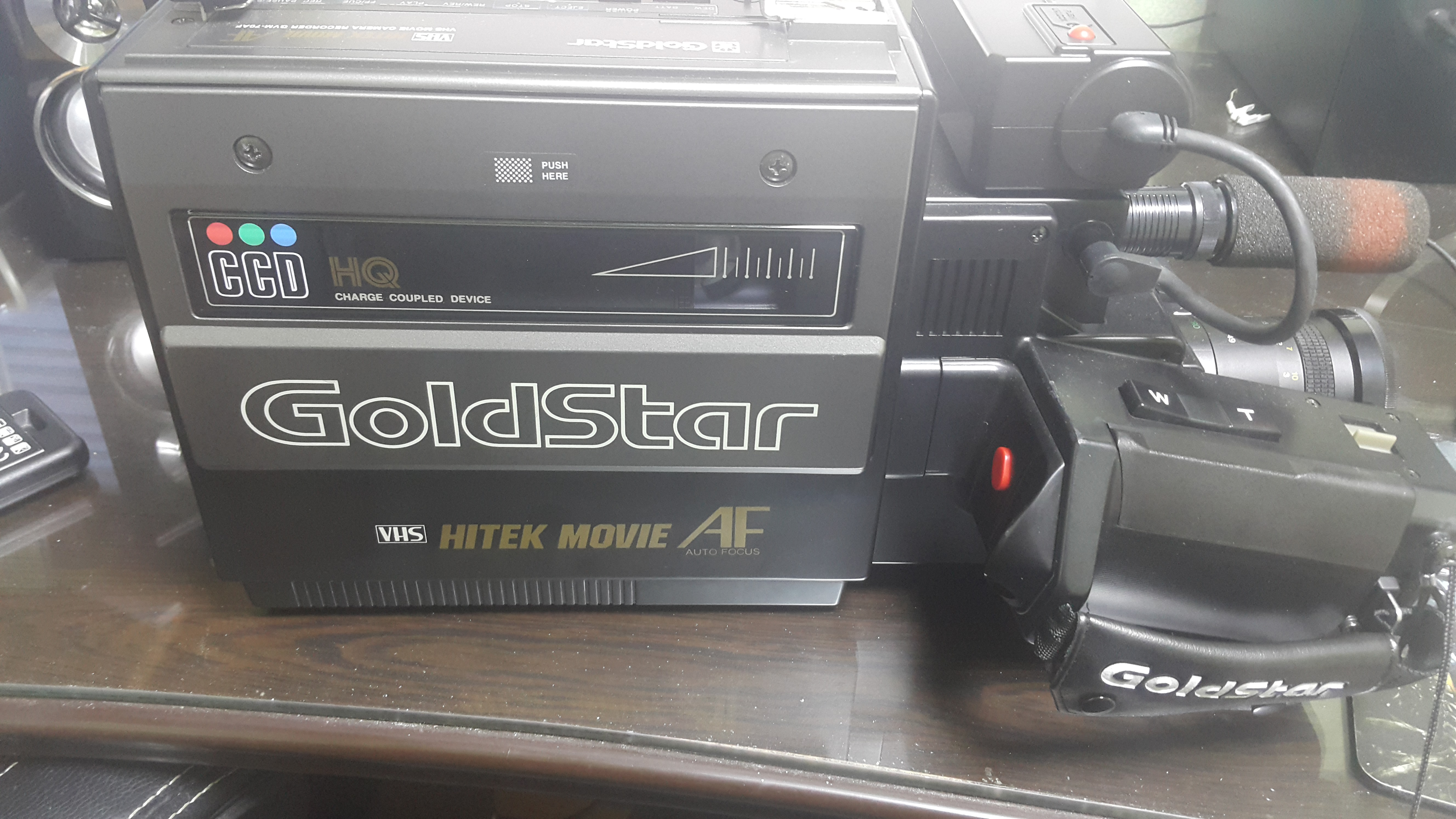 Video camera made by Goldstar (now LG). GVM-70AF 한국어 (조선): GVM-70AF 비디오 카메라 (금성 제작 및 판매)